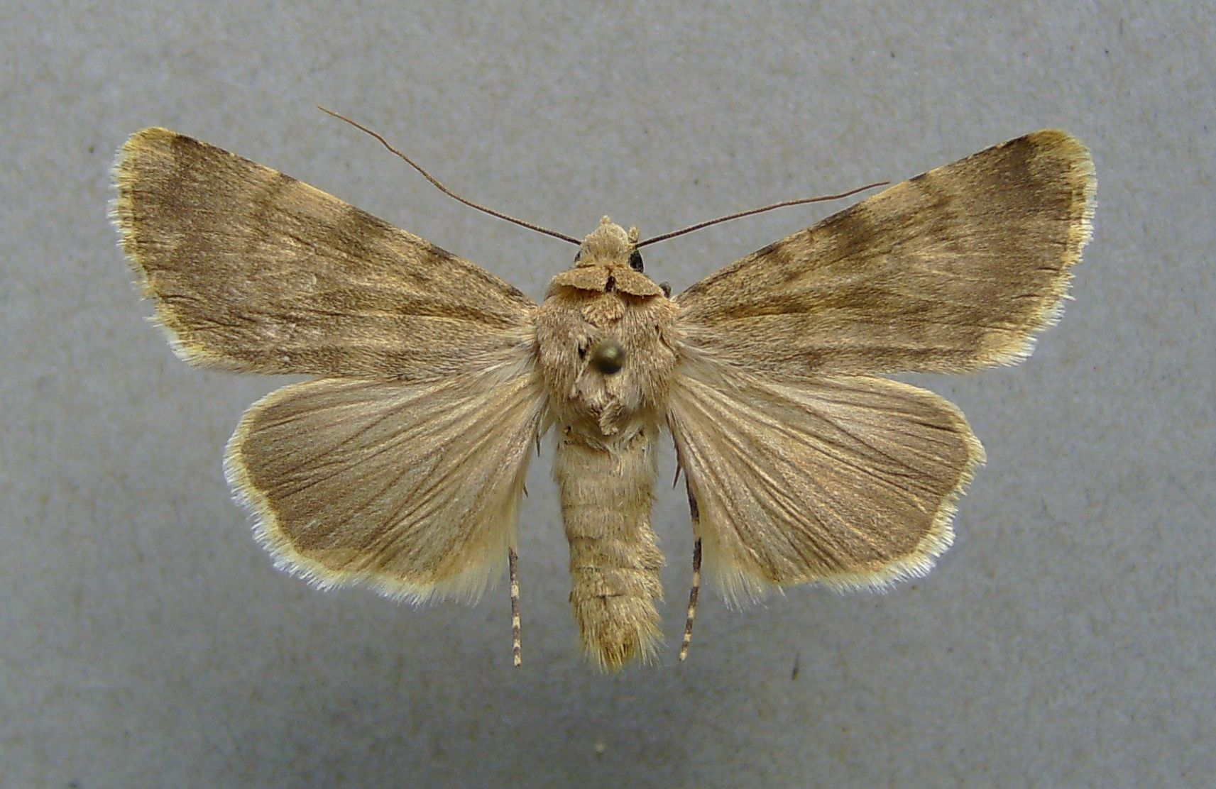 Dichagyris kaszabi, Bayankhongor, Mongolia